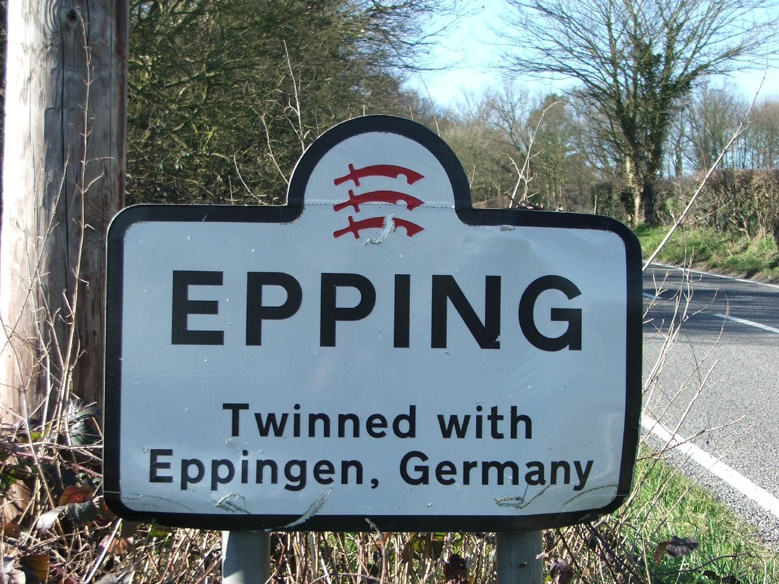 Signpost in Epping (United Kingdom), reading Twinned with Eppingen, Germany